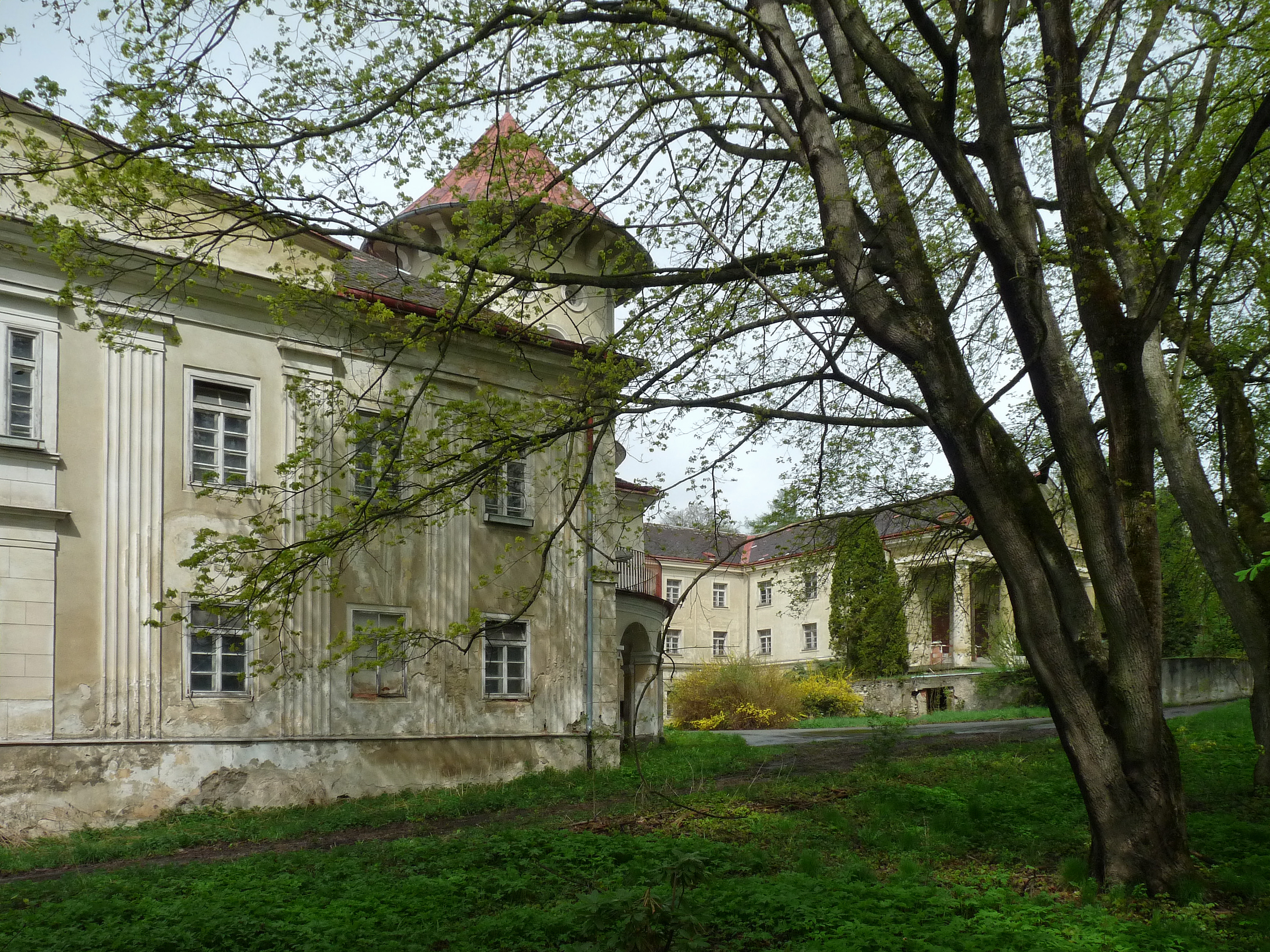 Buildings of the chateau and gardens in the village of Nemyšl, Tábor district, Czech Republic.